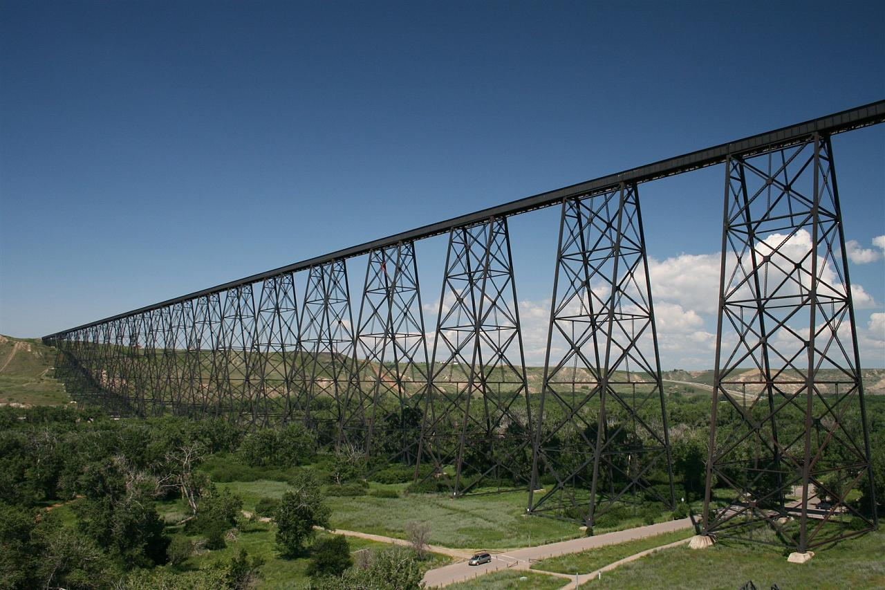 Lethbridge Viaduct 2008